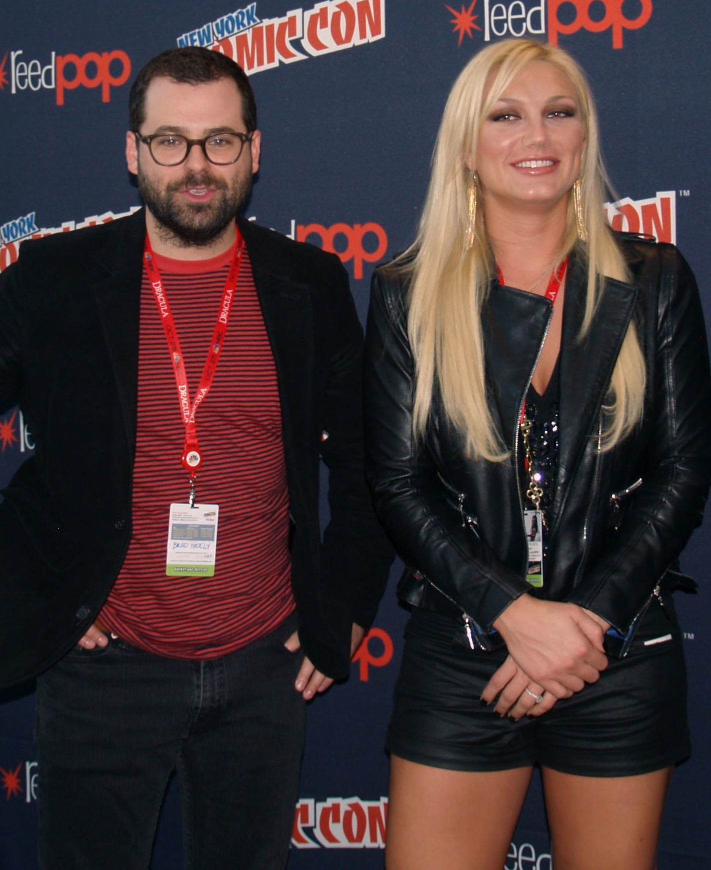 Comic book artist and television writer/producer Brad Neely and actress/singer Brooke Hogan during a press event for the Cartoon Network TV series China, IL and Rick and Morty at the Jacob K. Javits Convention Center in Manhattan, on Saturday October 12, 2013, Day 3 of the 2013 New York Comic Con.